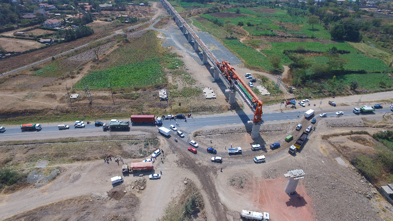 Girder laying across Pier 54 and 55